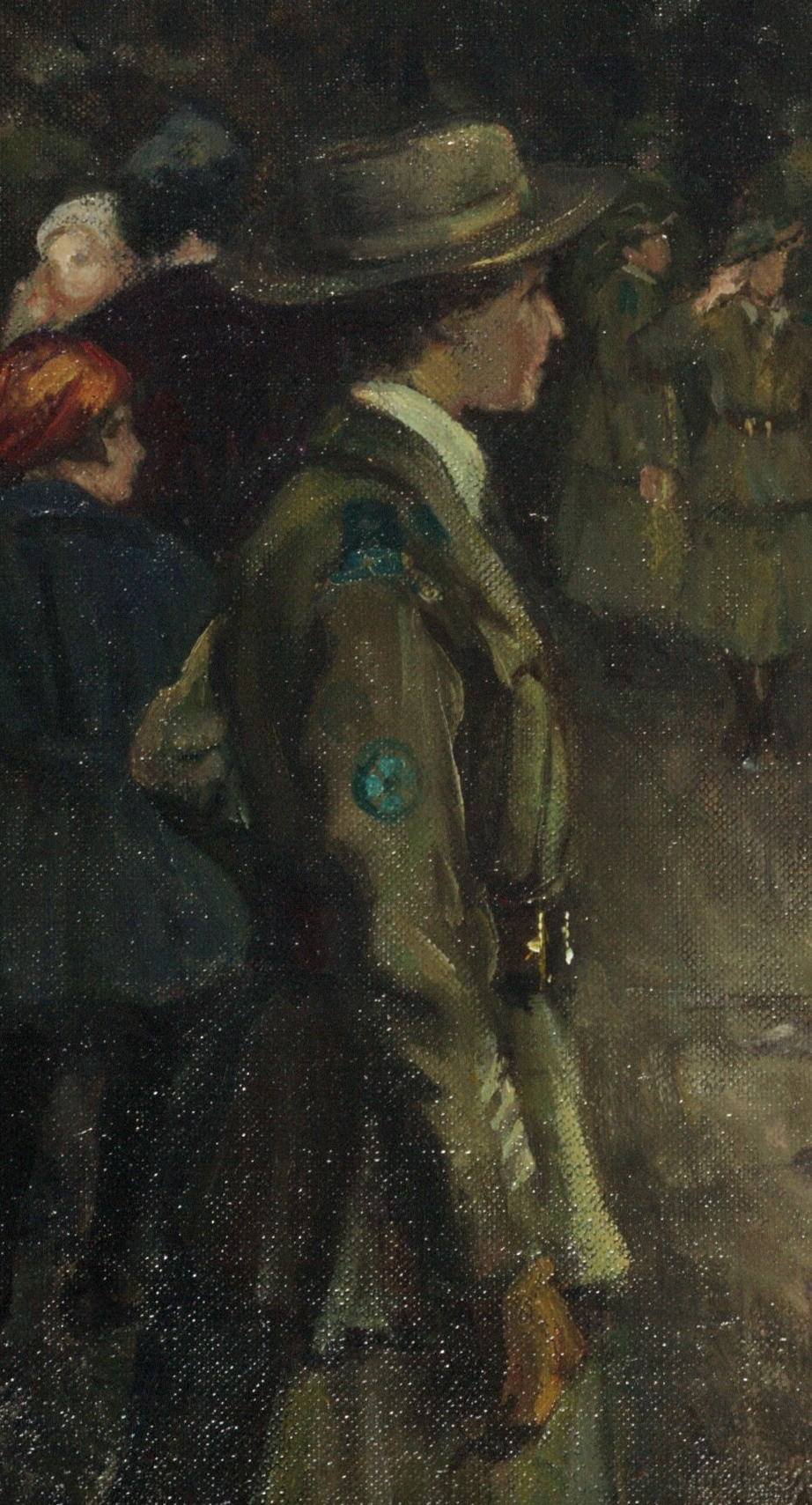 Victoria Station 1918 - the Green Cross Corps (women's Reserve Ambulance) guiding soldiers on leave image: A view inside the large arched entrance to Victoria station, with groups of British soldiers being guided by women of the Women's Reserve Ambulance Corps, who are also wearing khaki uniforms. The rear of a truck bearing the Green Cross symbol is visible to the left. Two plumes of steam, presumably emitted by trains, can be seen within the arch.